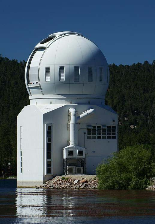 Dome of GST